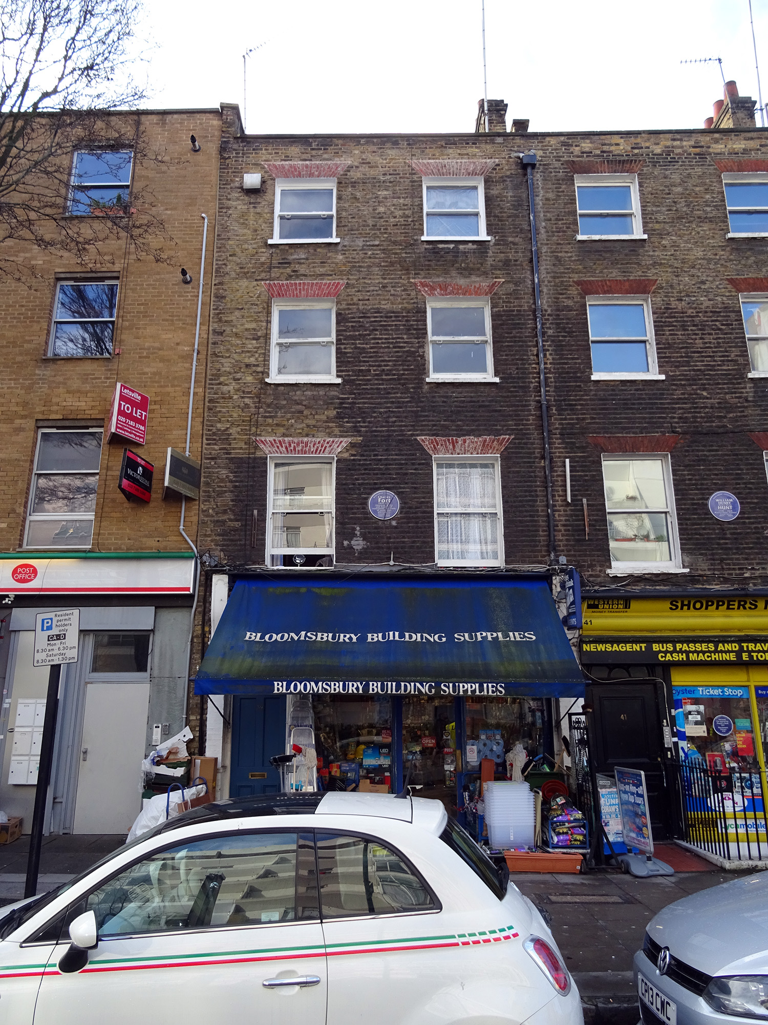 "Charles Fort (1874-1932) American founder of Forteanism, the study of anomalous phenomena lived here 1921-1928" - 39 Marchmont Street, London WC1N 1AP